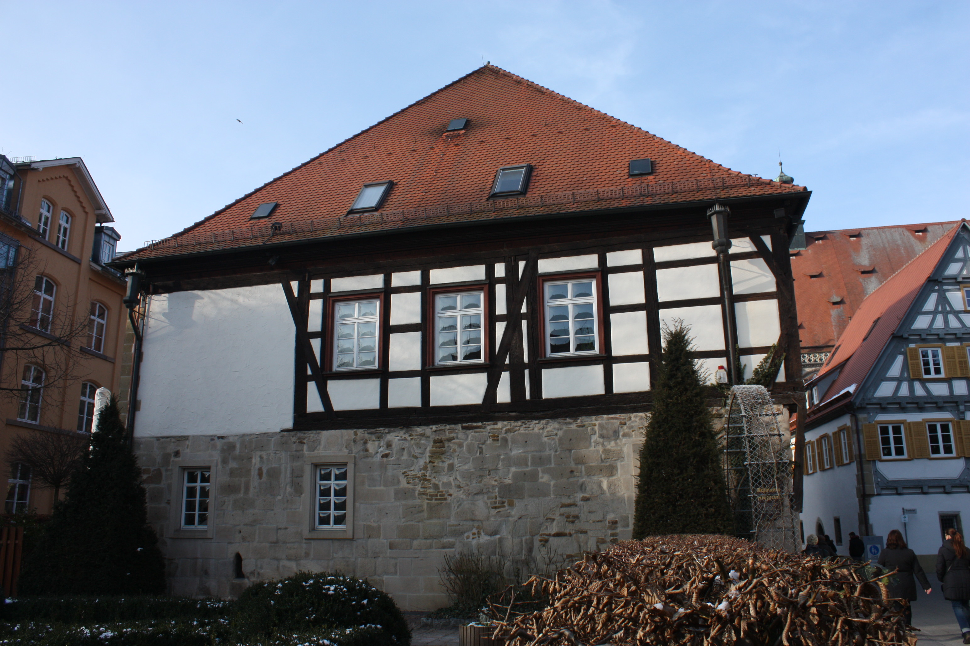 Fuggerei Schwaebisch Gmuend